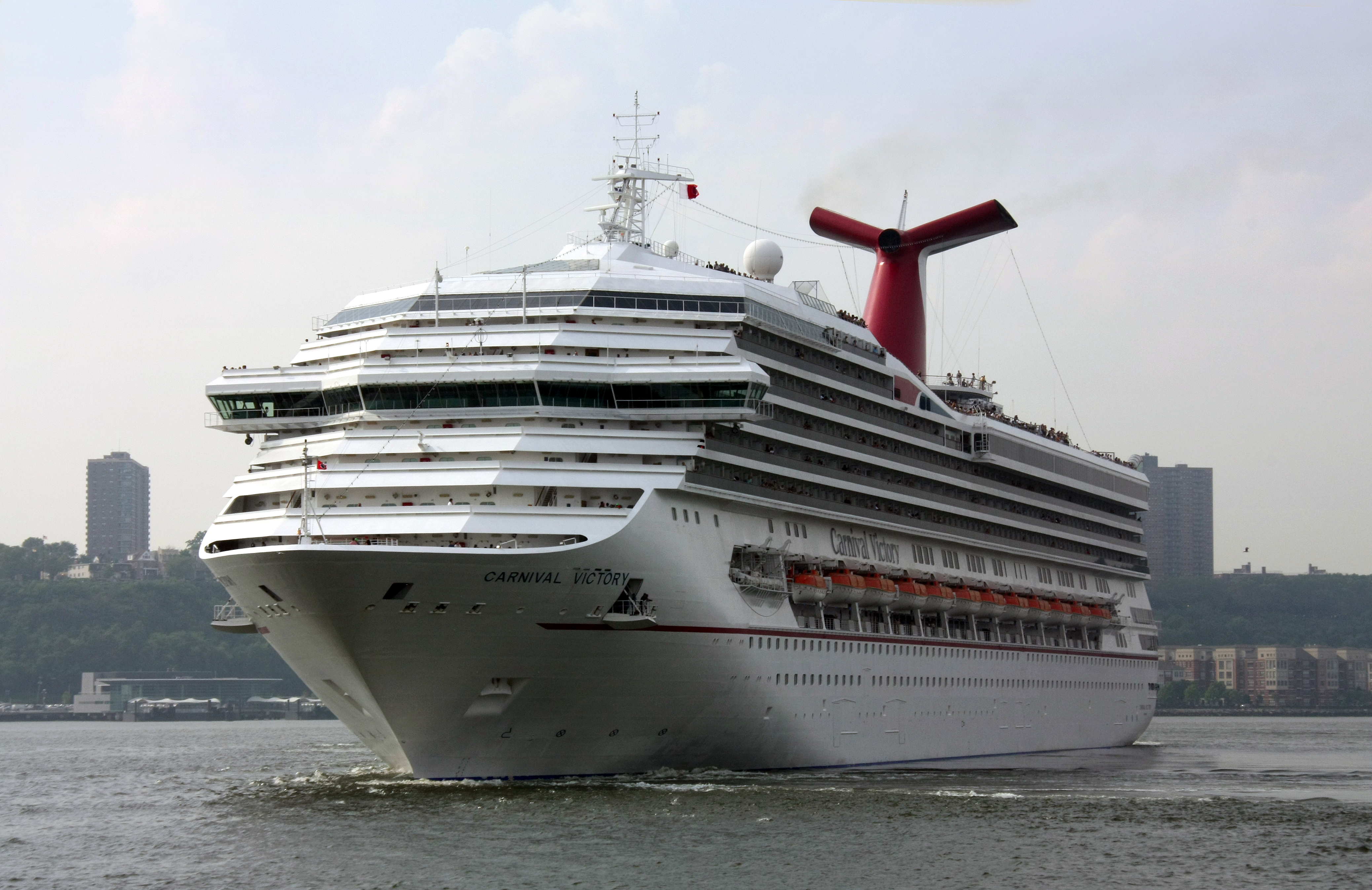 Carnival Victory in Hudson River.